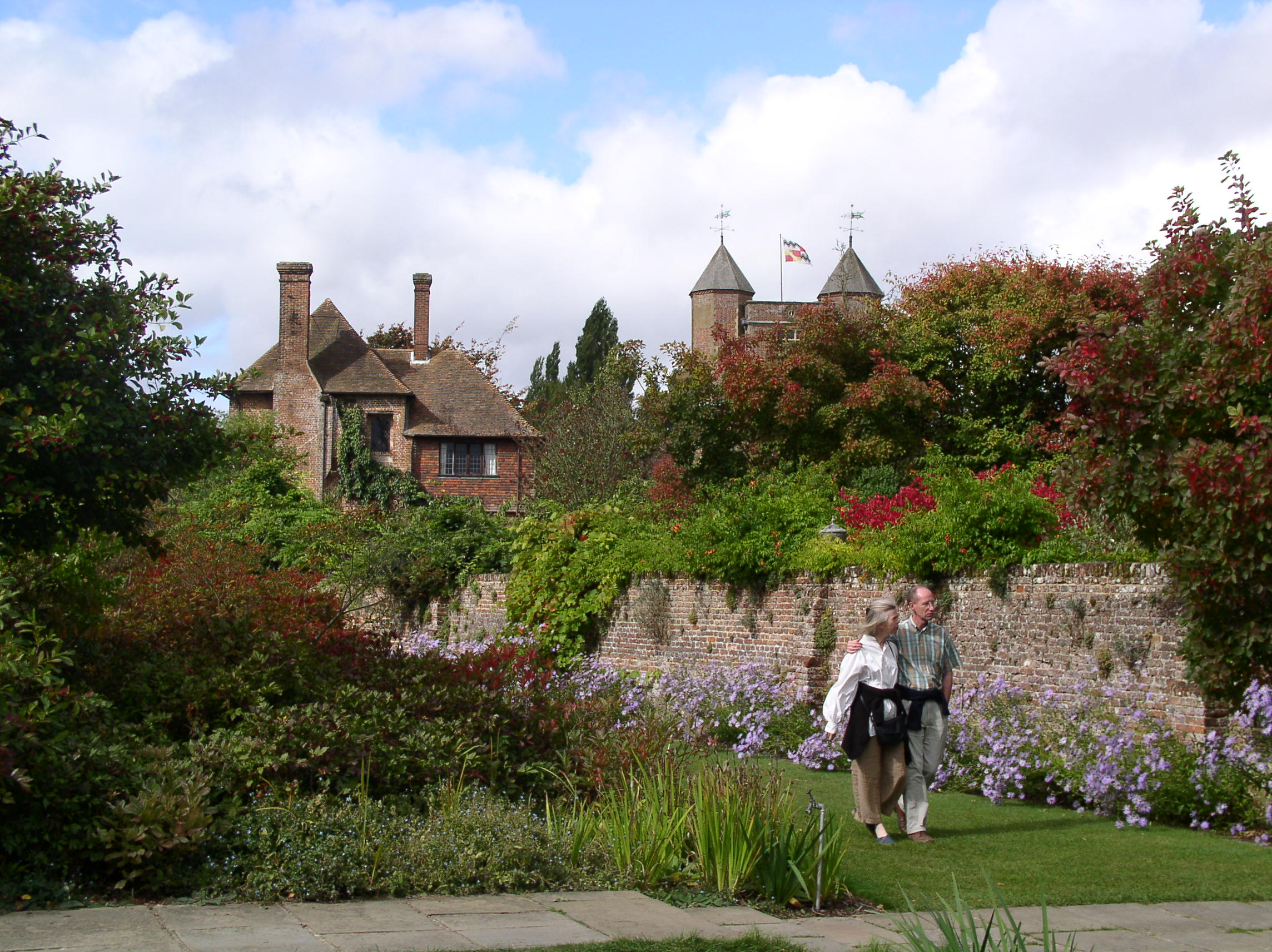 Sissinghurst Castle, England